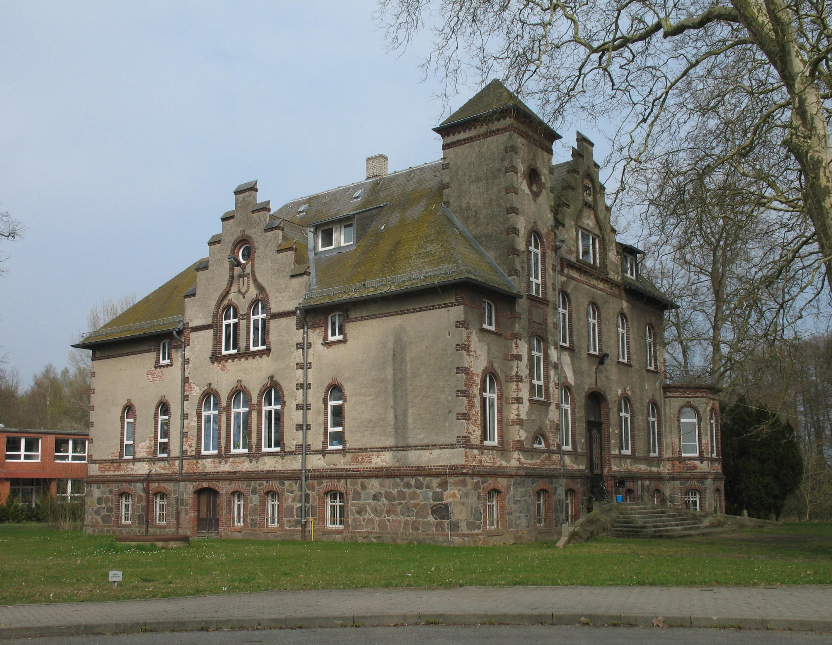 Manor Philippshof in Putlitz in Brandenburg, Germany